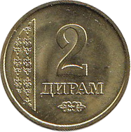 2 dirams